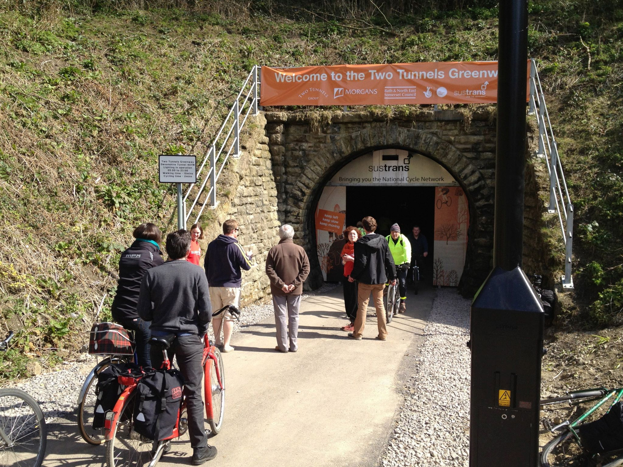 View of the Devonshire Tunnel portal in Bear Flat, Bath, on the opening day of the Two Tunnels Greenway.